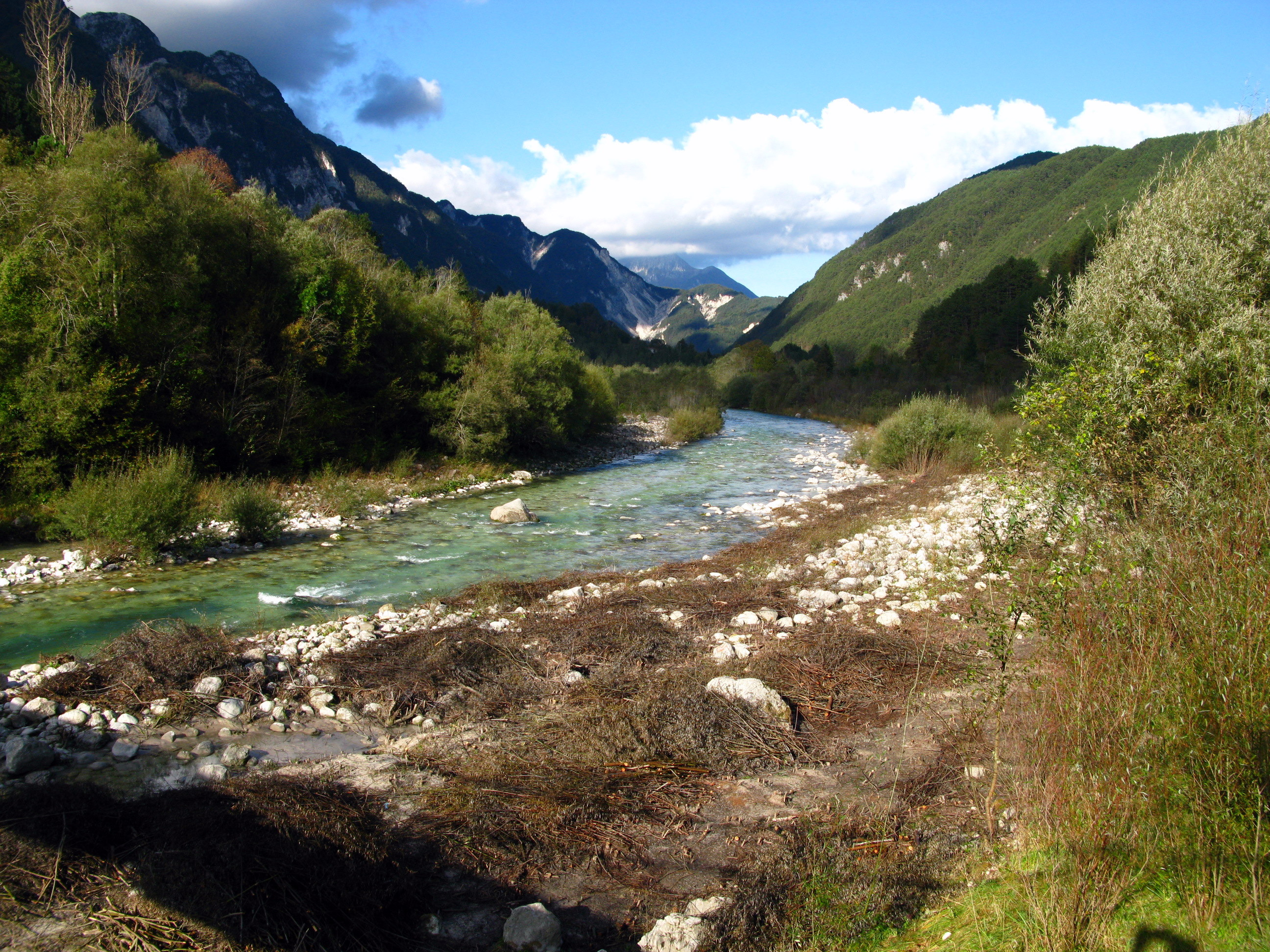 Middle section of Resia Valley, a tributary valley of Canal del Ferro, near San Giorgio / Friuli-Venezia Giulia / Italy / EU. View down the valley to the west with the river Resia. On the left side of the rising Monte Plauris. White stones are in the riverbed. Round beech forests.